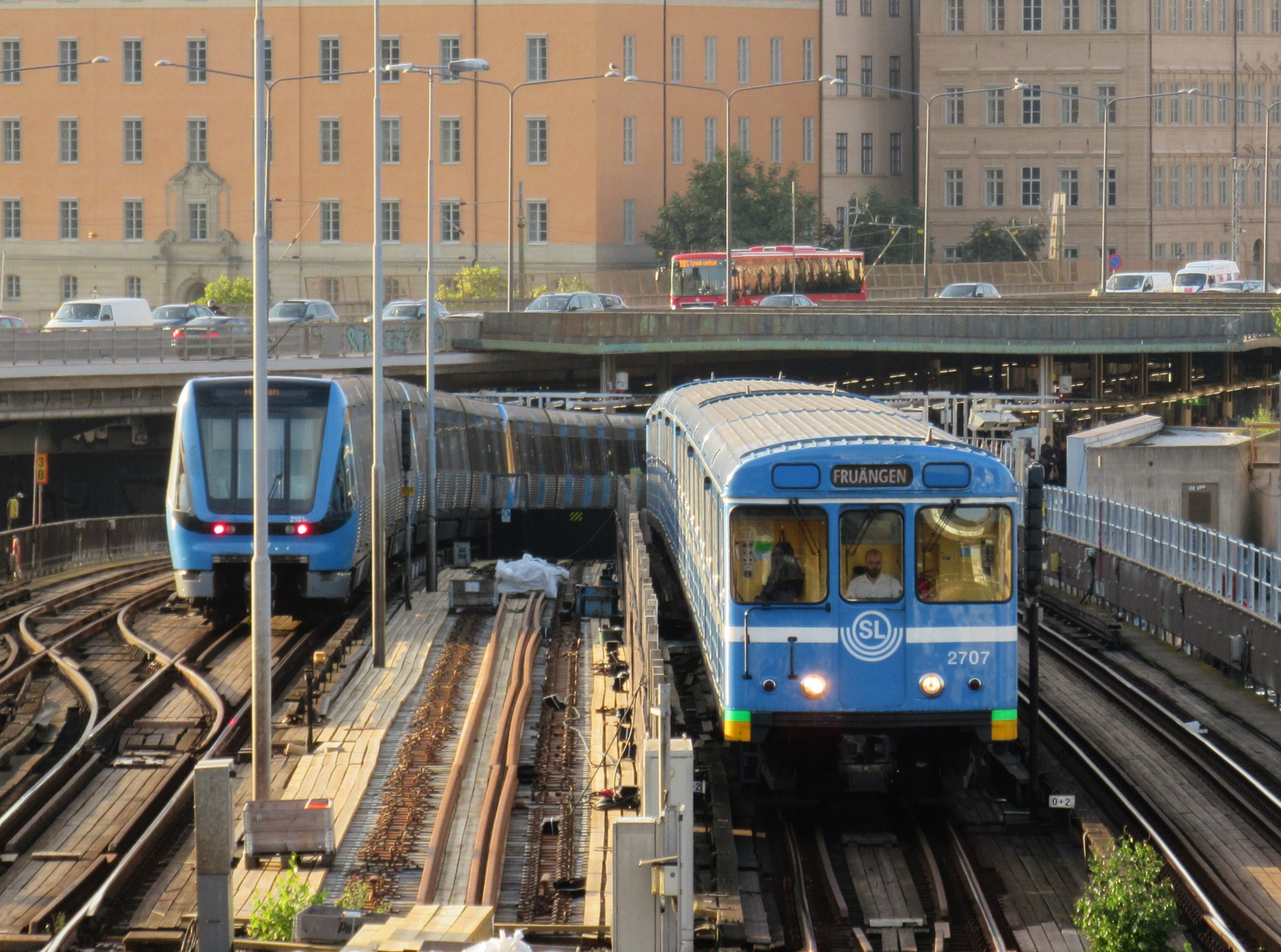 Metro train class C6 (subtype C6H) at Gamla stan (Old Town) in Stockholm.